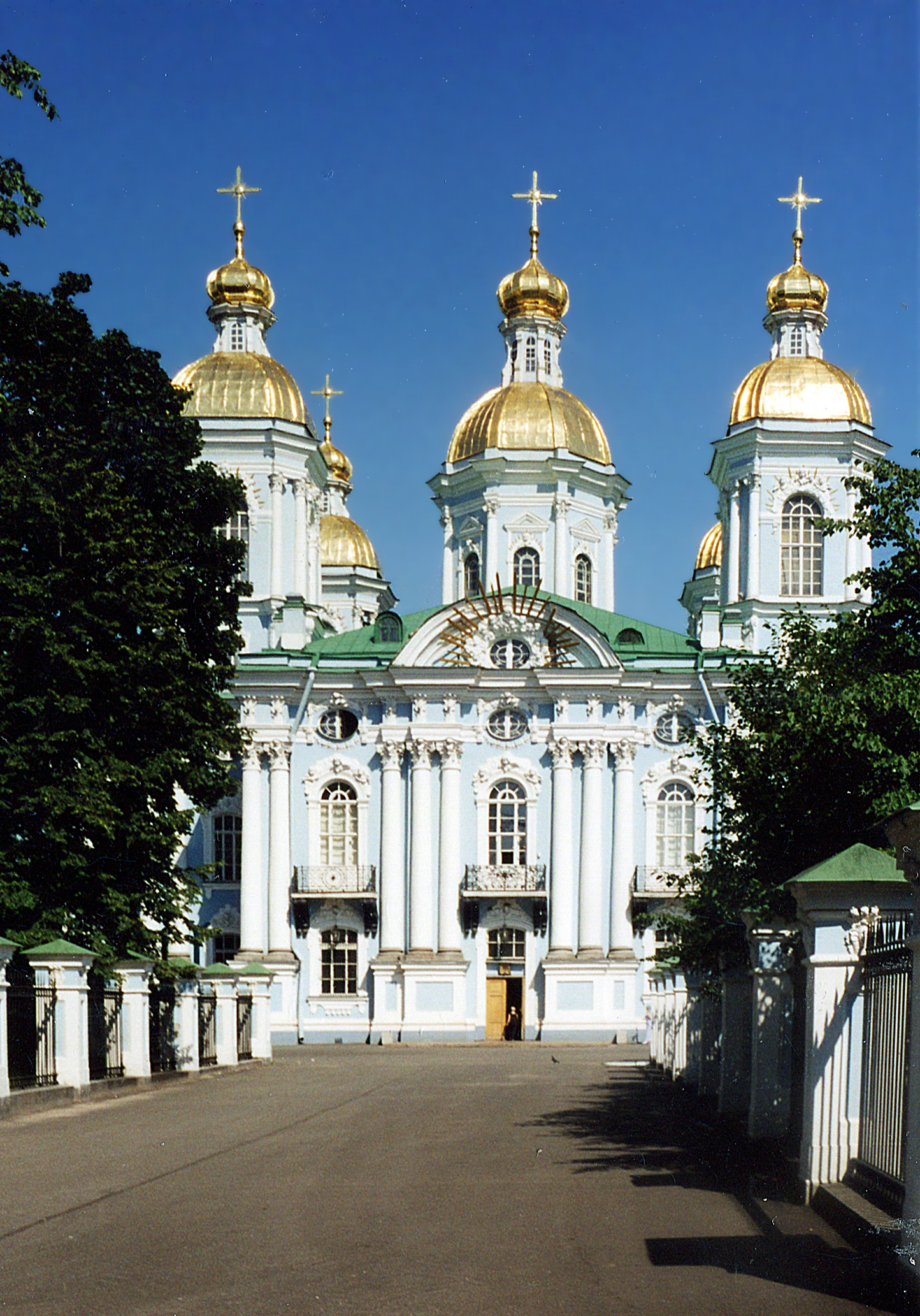 Saint Petersburg (Russia), The Saint Nicholas Naval Cathedral.